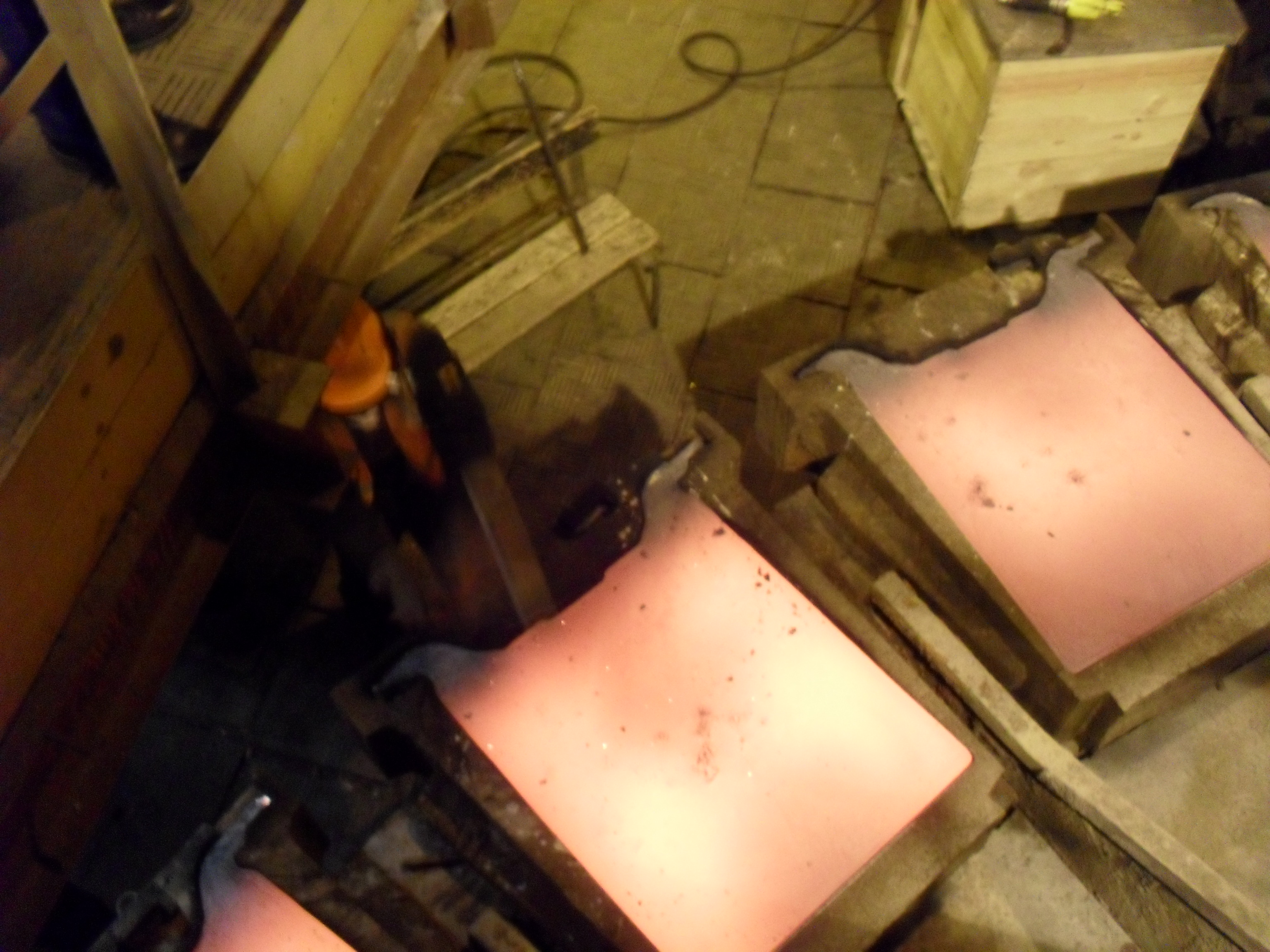 Production of copper anodes at UMMC plant